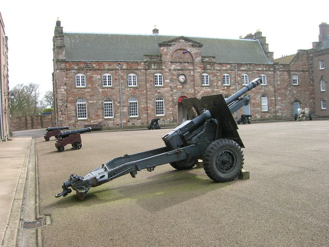 The Barracks